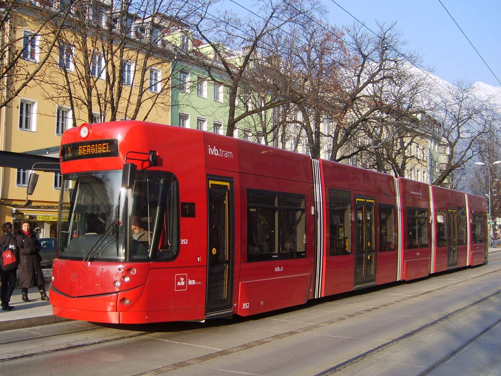 Bombardier Flexity Outlook streetcar #351 by Innsbrucker Verkehrsbetriebe at Marktplatz station